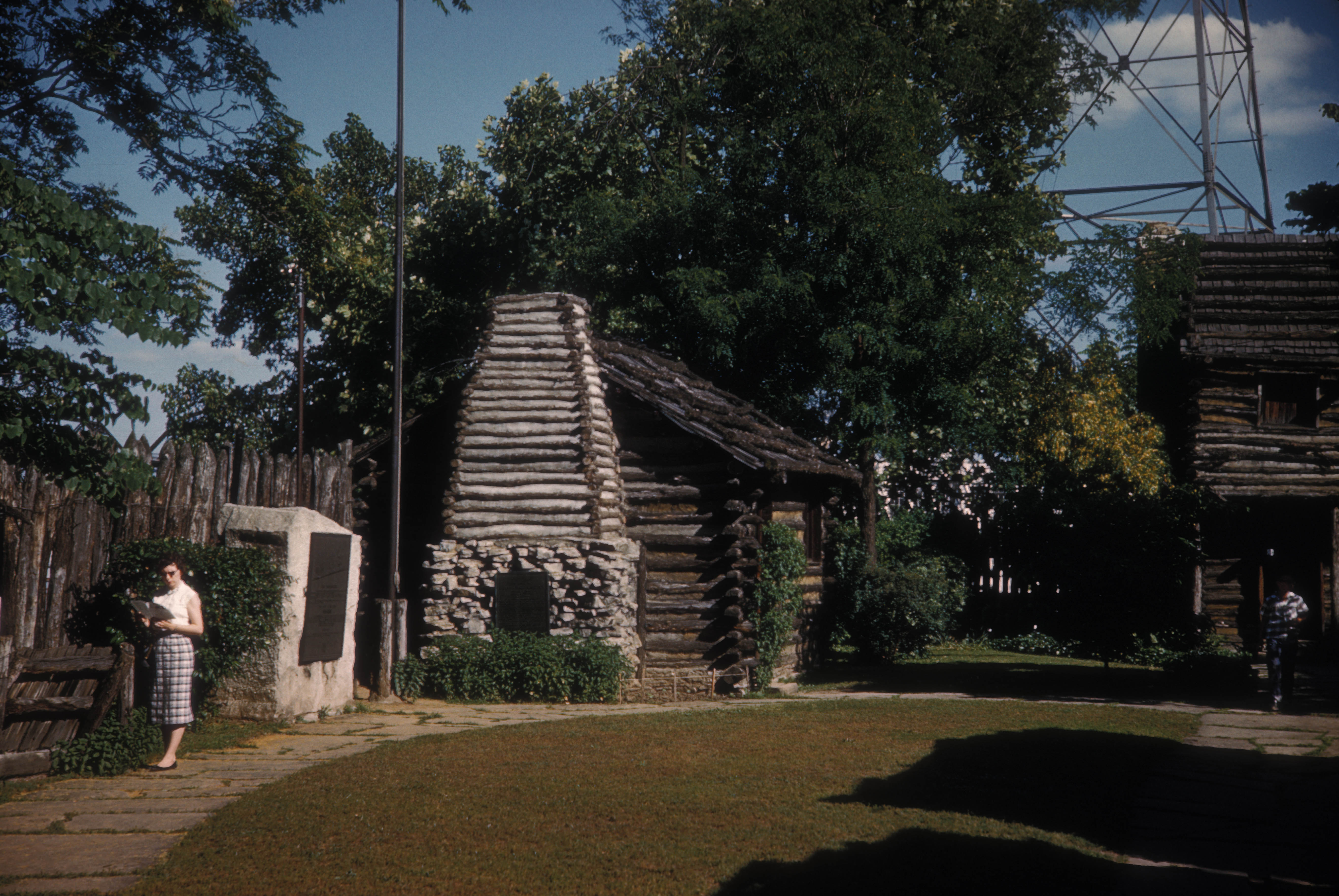 AUTHENTIC REPRODUCTION OF THE FORT in Nashville Tennesee, BUILT IN 1780 ON THE CUMBERLAND AND WHICH RESISTED REPEATED ATTACKS BY CHEROKEES AND CREEKS